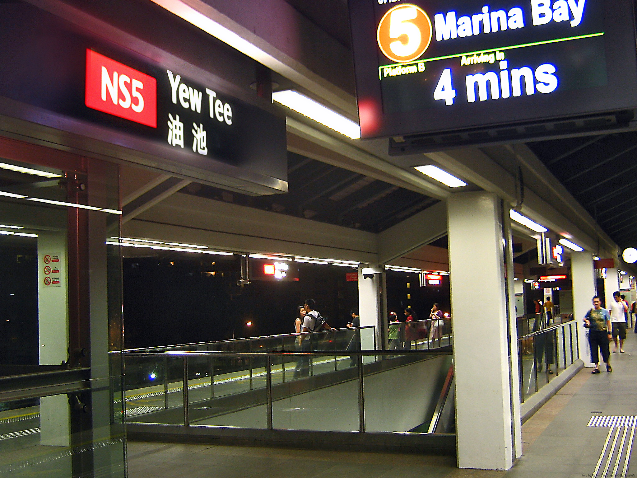 Platform view of NS5 Yew Tee MRT station. along the North South Line in Singapore.